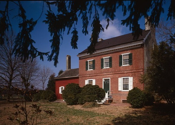 Aspendale — Downs Chapel, Route 300, Kenton vicinity, (Kent County, Delaware). Image courtesy of the Historic American Building Survey—HABS archives - (1982; cropped).